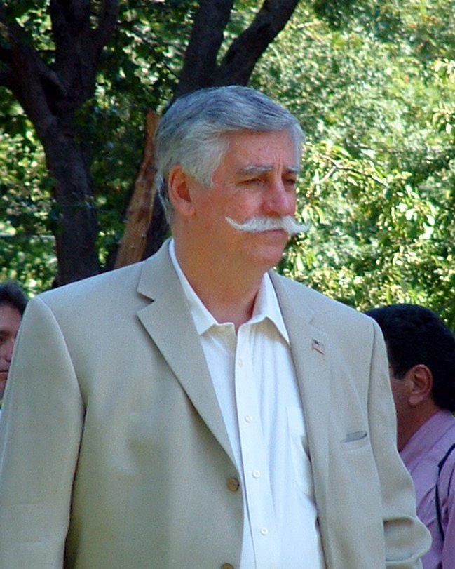 A man with a distinctive moustache. Photographed June 3, 2006 at Galesburg, Illinois.